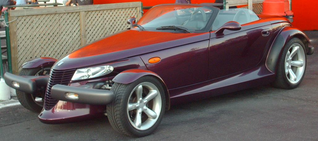 1997-2000 Plymouth Prowler photographed in Montreal, Quebec, Canada at Gibeau Orange Julep.